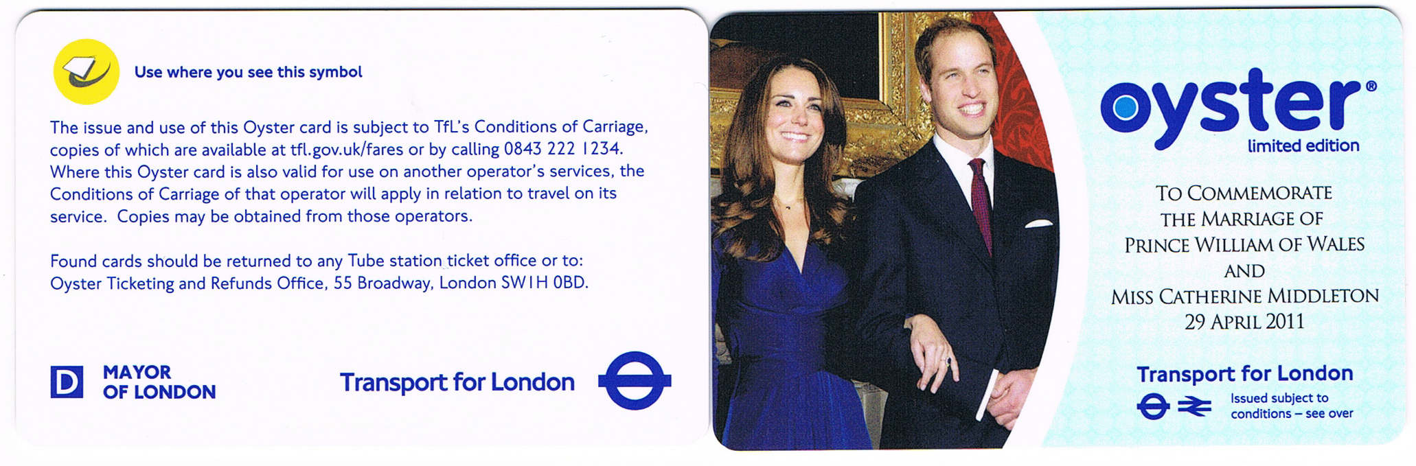 OysterCardSpecialEdition